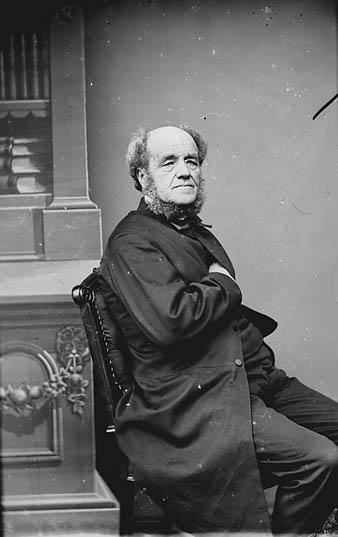 1 negative : glass, wet collodion, b&w ; 11 x 16.5 cm.